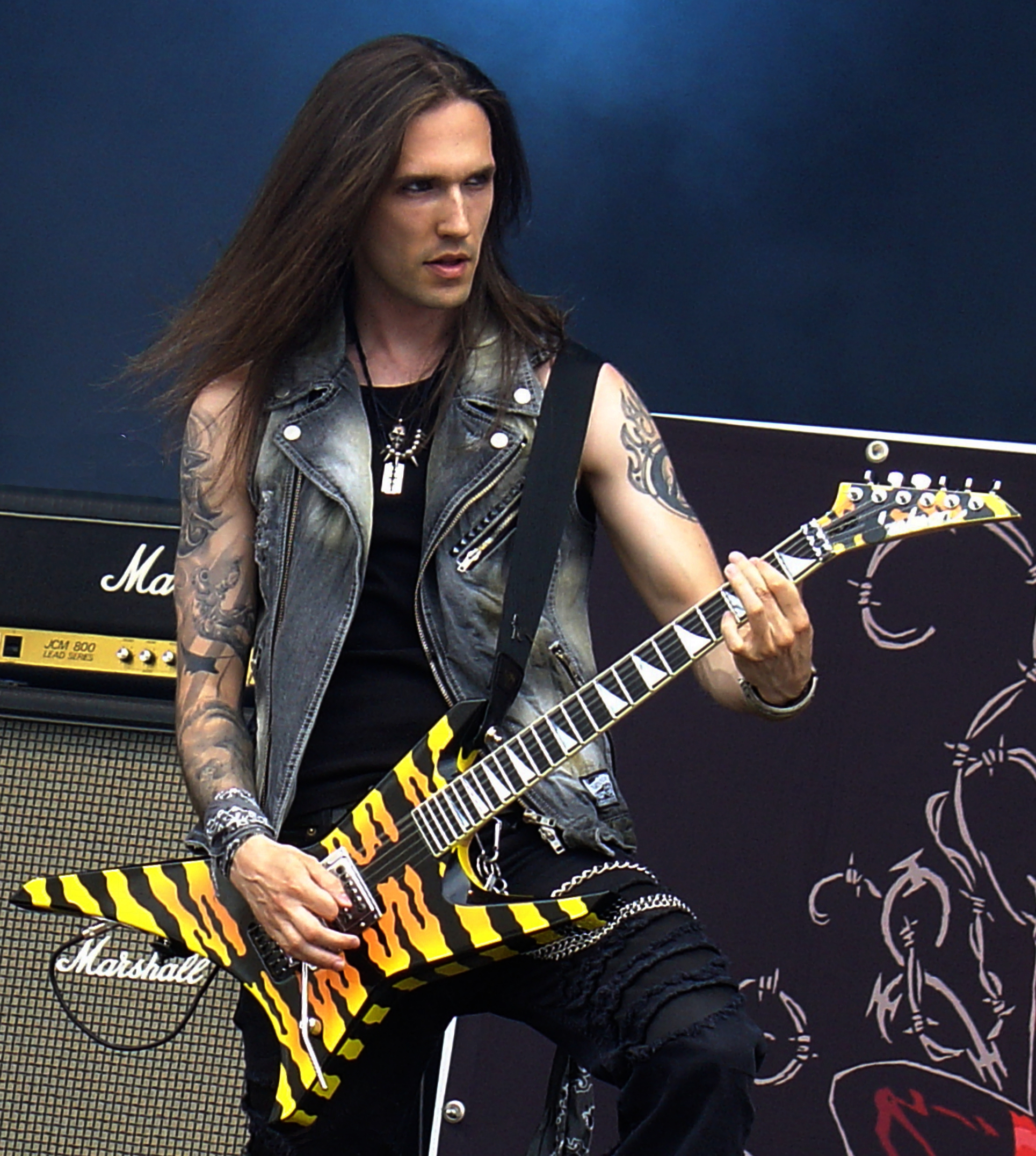 Amoral played at Tuska Open Air Metal Festival in Suvilahti, Helsinki, Finland 30th June 2012.